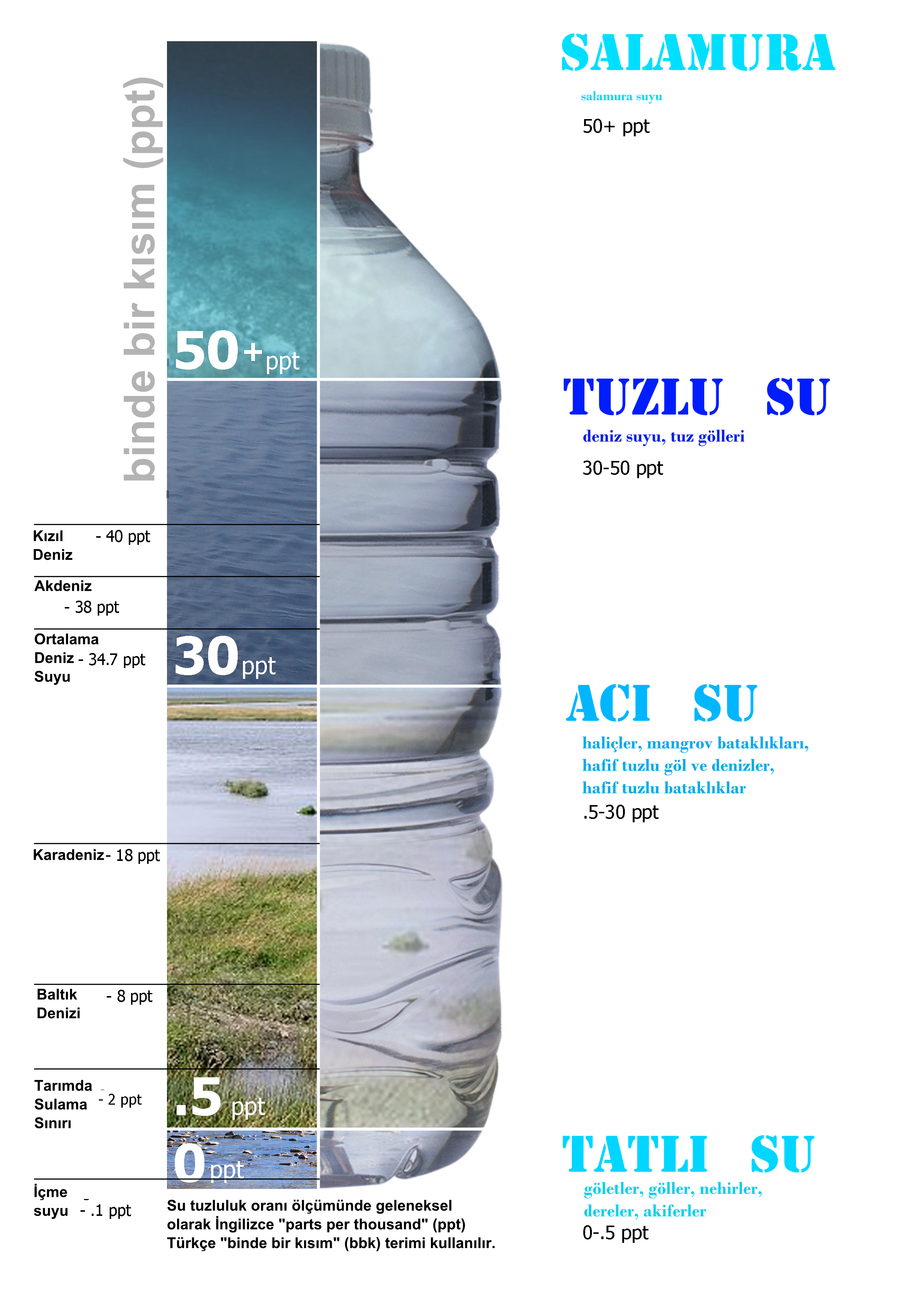 Water salinity diagram English version: File:Water salinity diagram.png